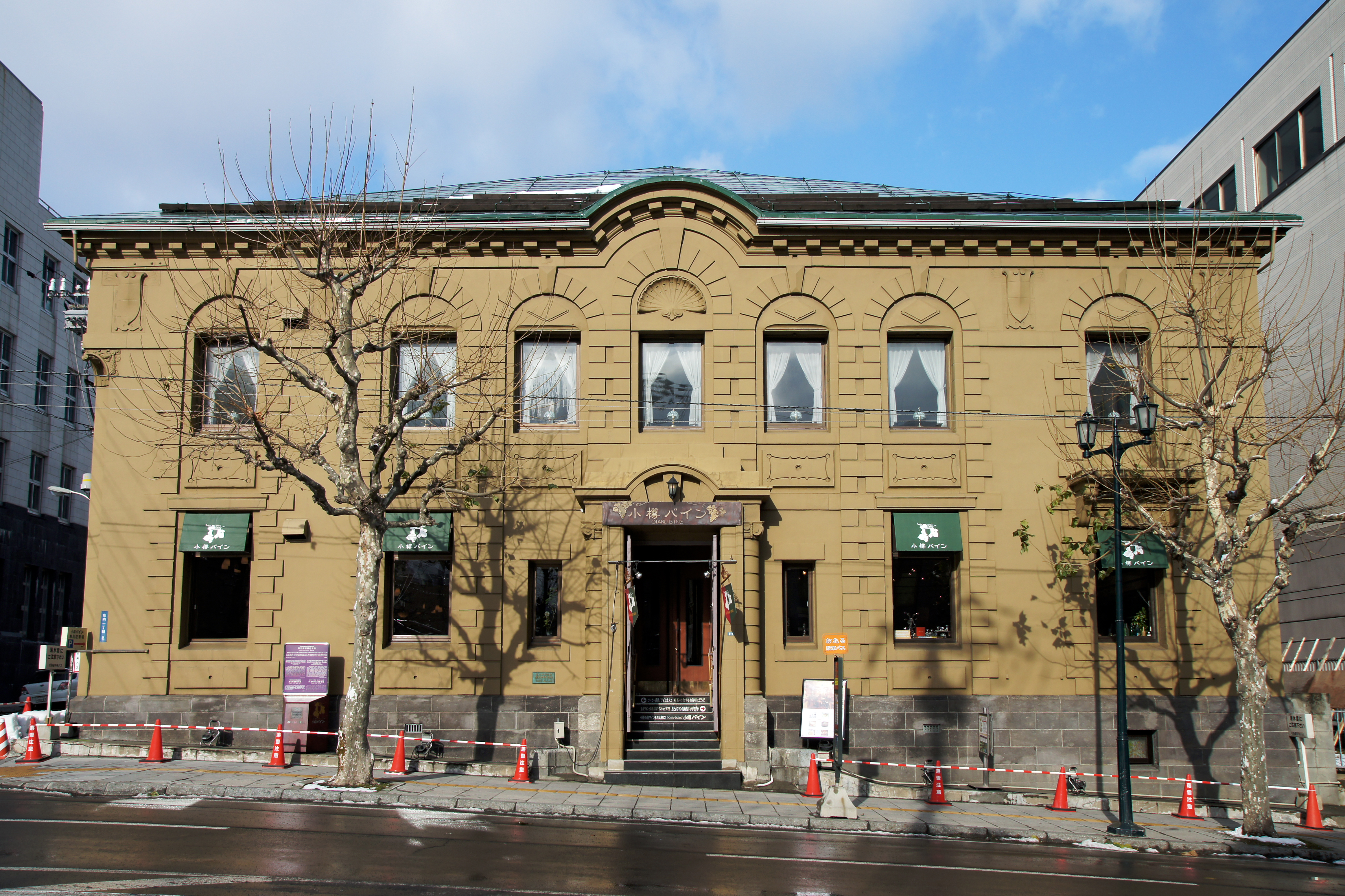 Former Hokkaido Bank, Head Office in Otaru, Hokkaido prefecture, Japan